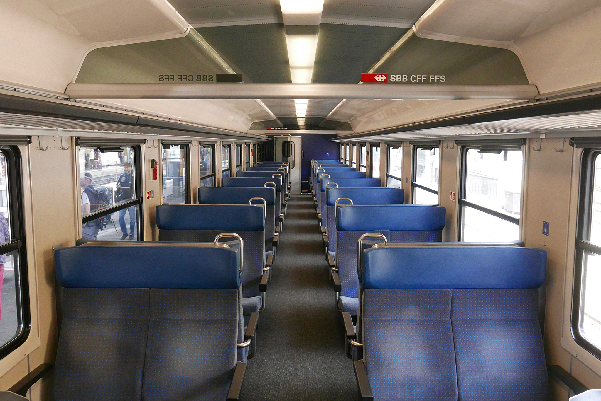 Interior of SBB CFF FFS B 50 85 21-73 391-7 in the consist of InterRegio 2894 "Gotthard-Weekender" from Bellinzona to Zürich HB.